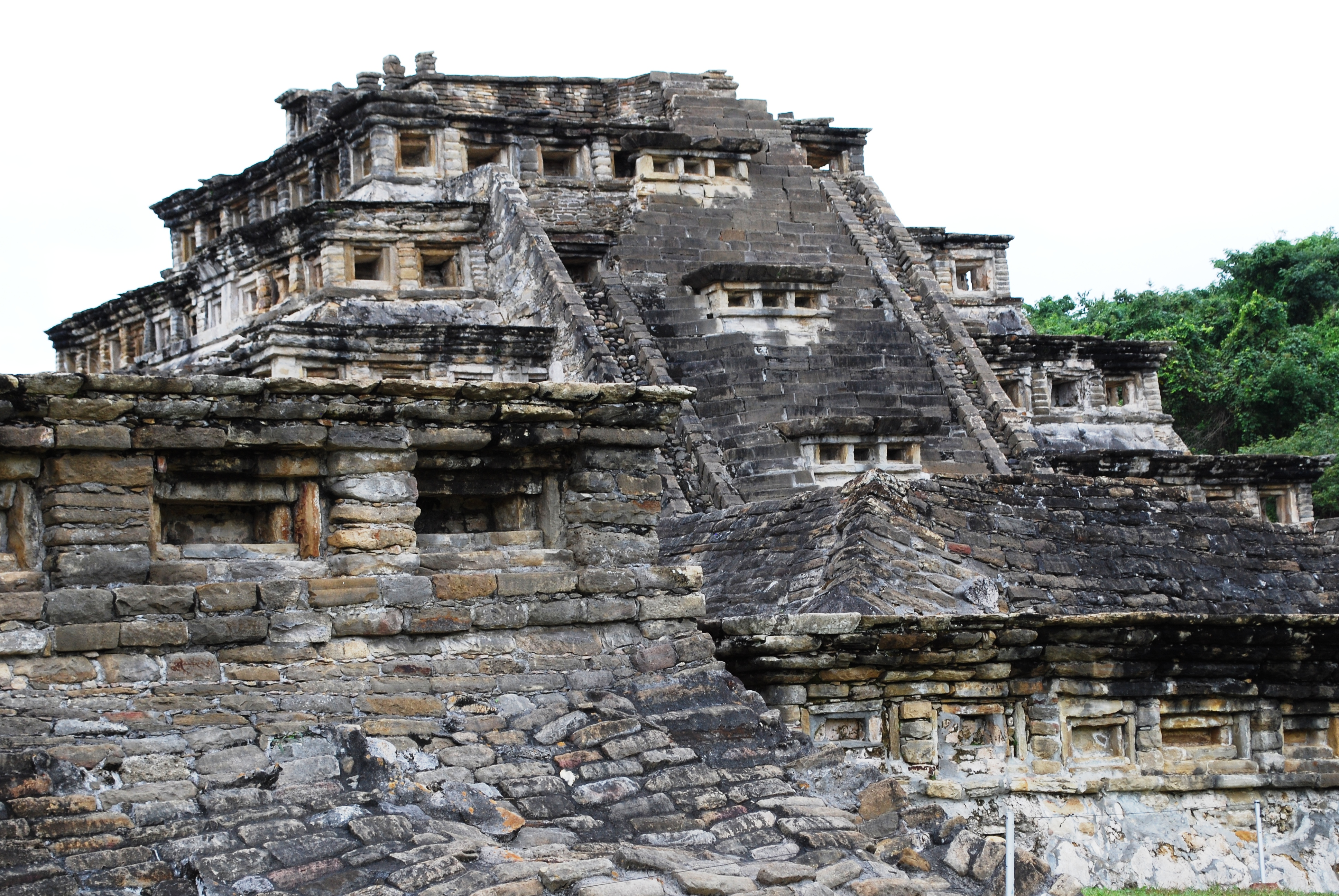 View of the Pyramid of the Niches from the Temple of Tajin in Tajin, Veracruz, Mexico